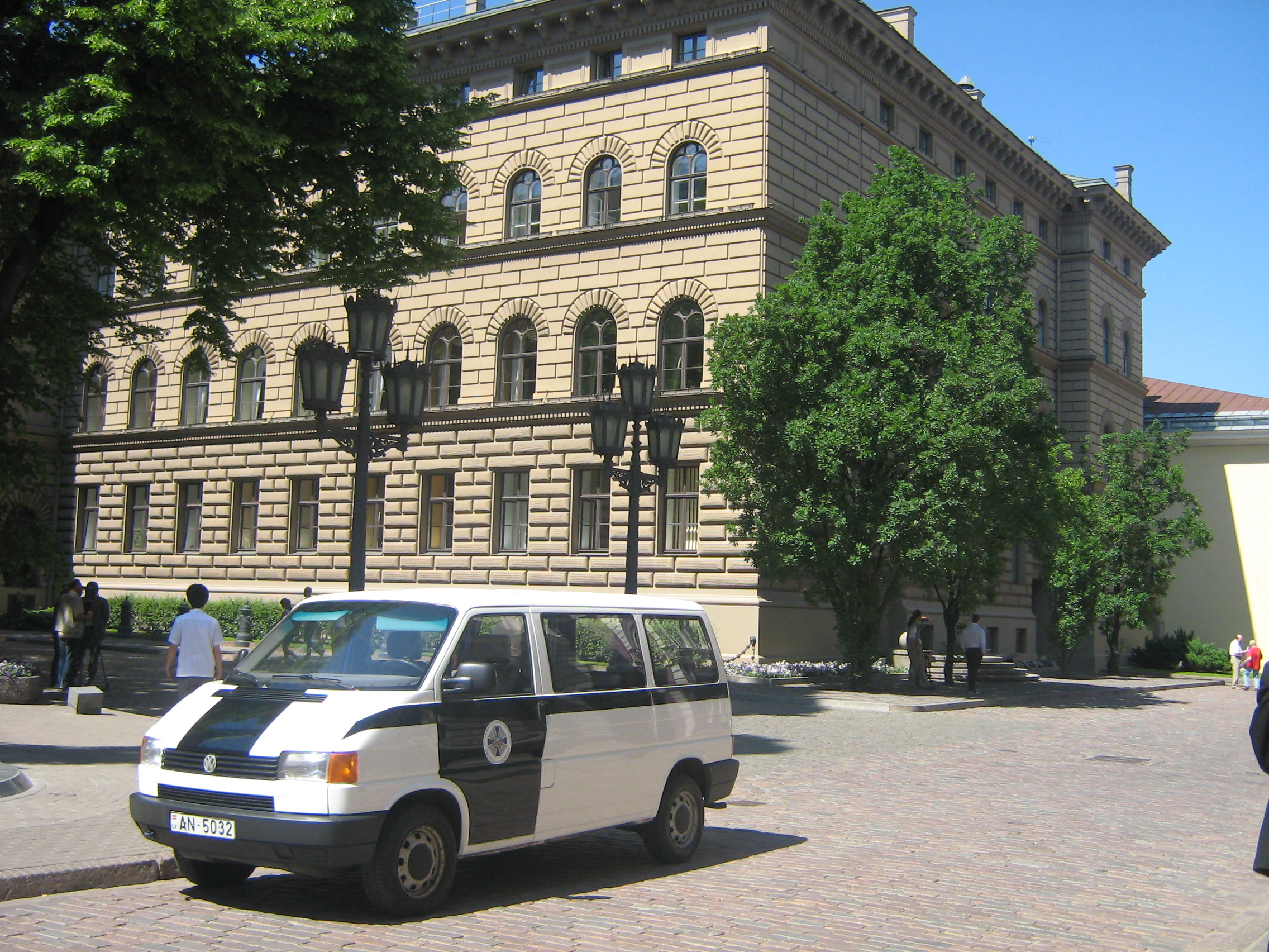 Latvian parliament buildingLatviešu: Saeimas nams